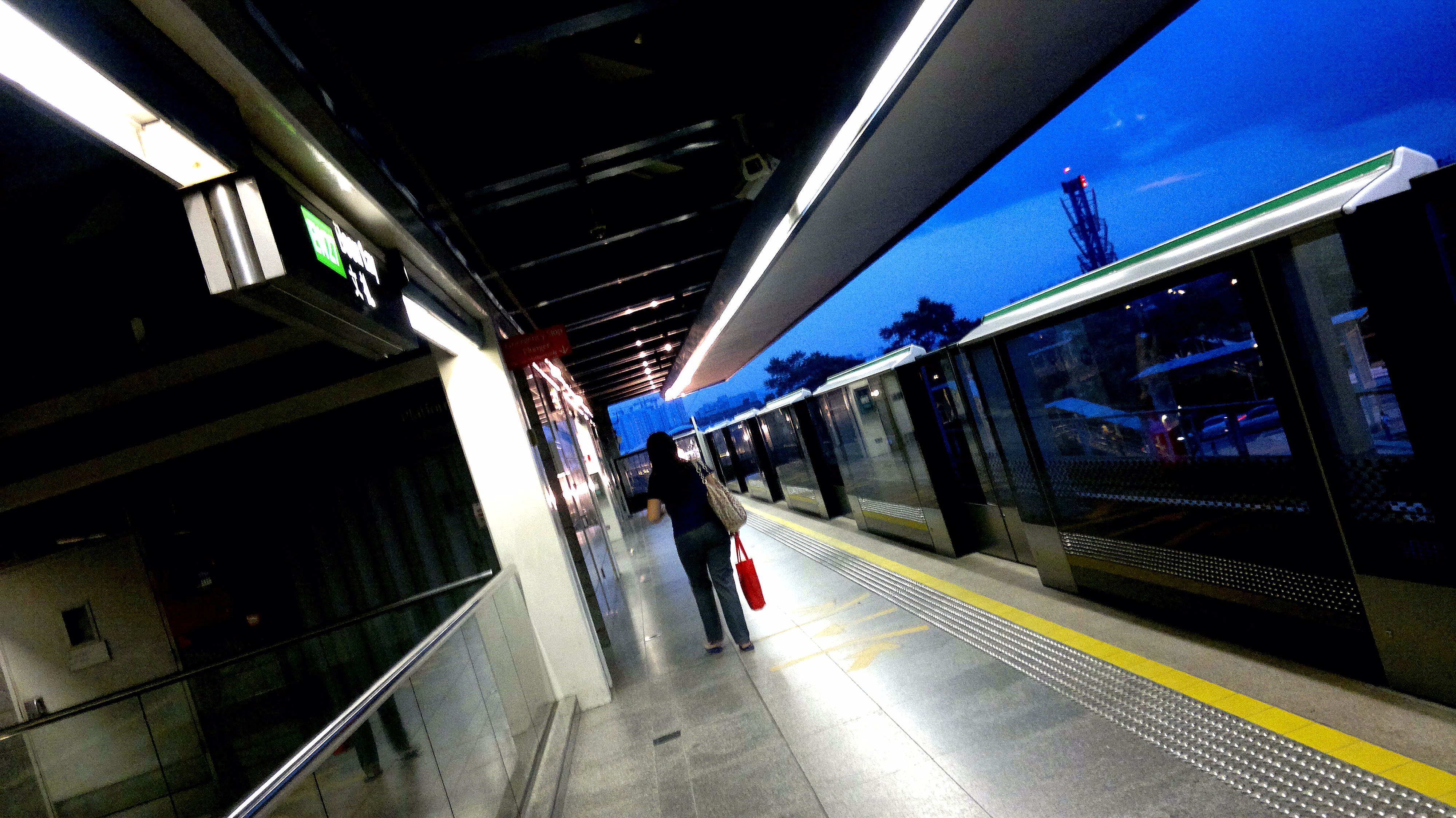 Platform level of Boon Lay Station